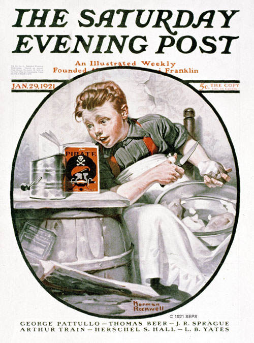 Saturday Evening Post cover – "Mom’s Helper" by Norman Rockwell.